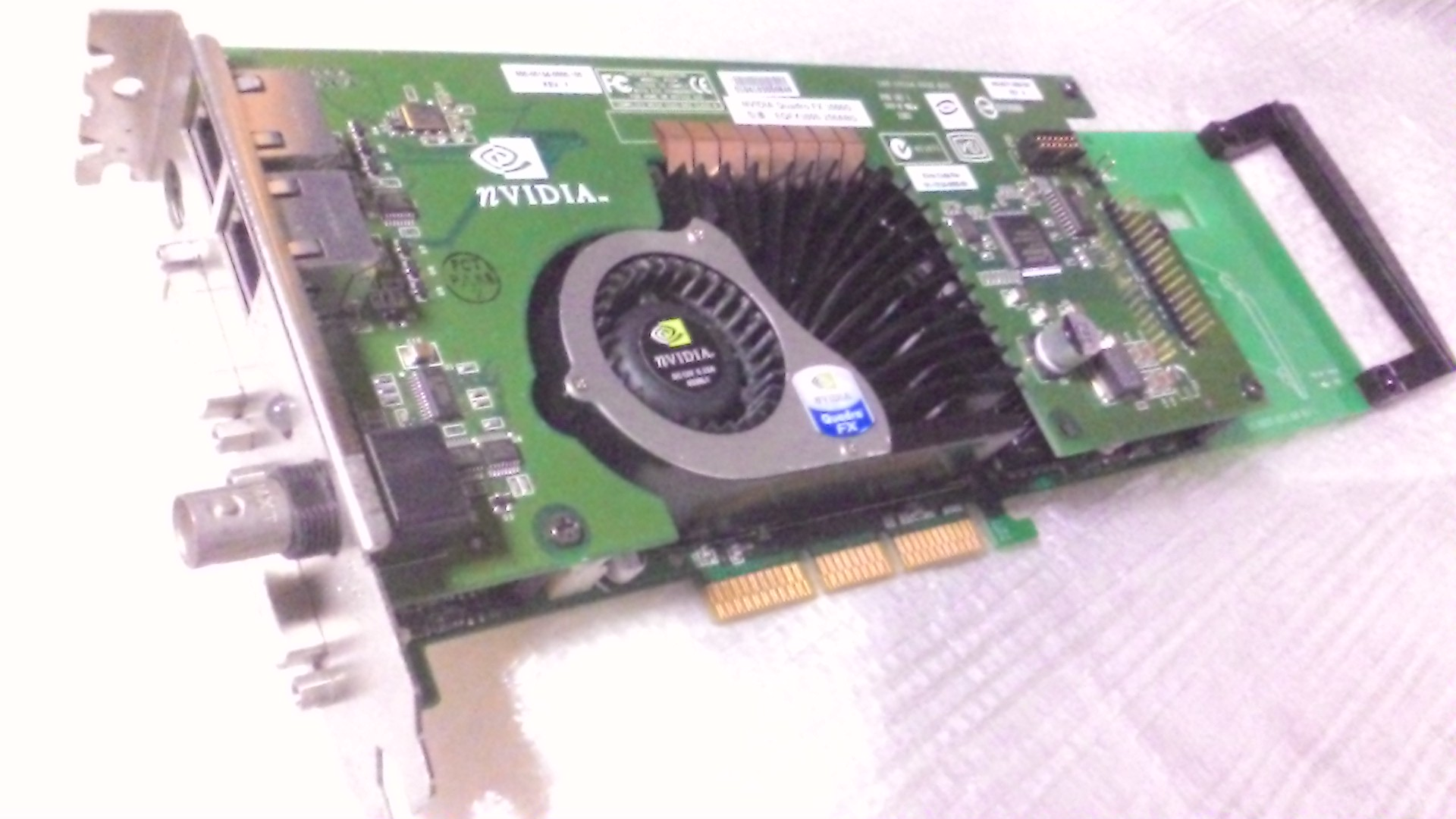 FRAME LOCK 0,1port, HOUSE SYNC BNC 4pin power conector,AGP8X Purchased goods are taken at home.